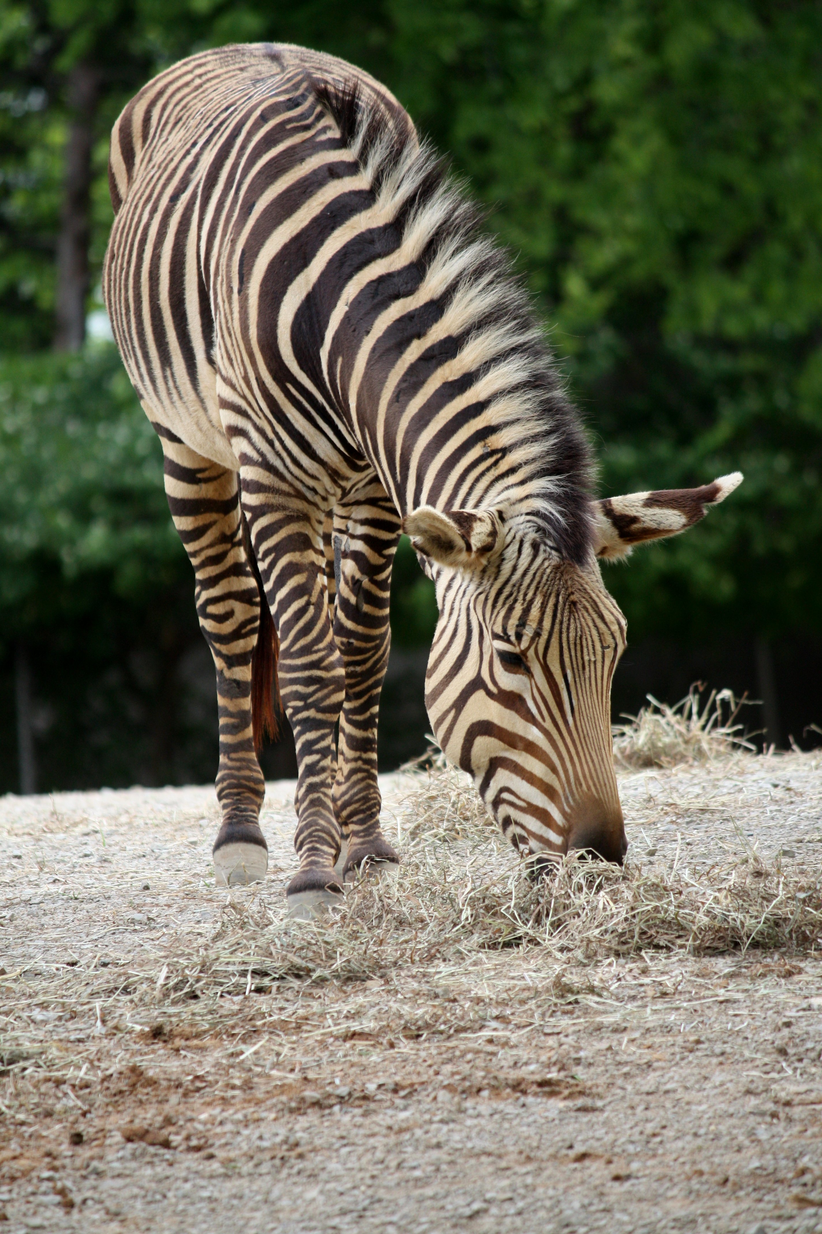 Equus zebra hartmannae at the Louisville Zoo